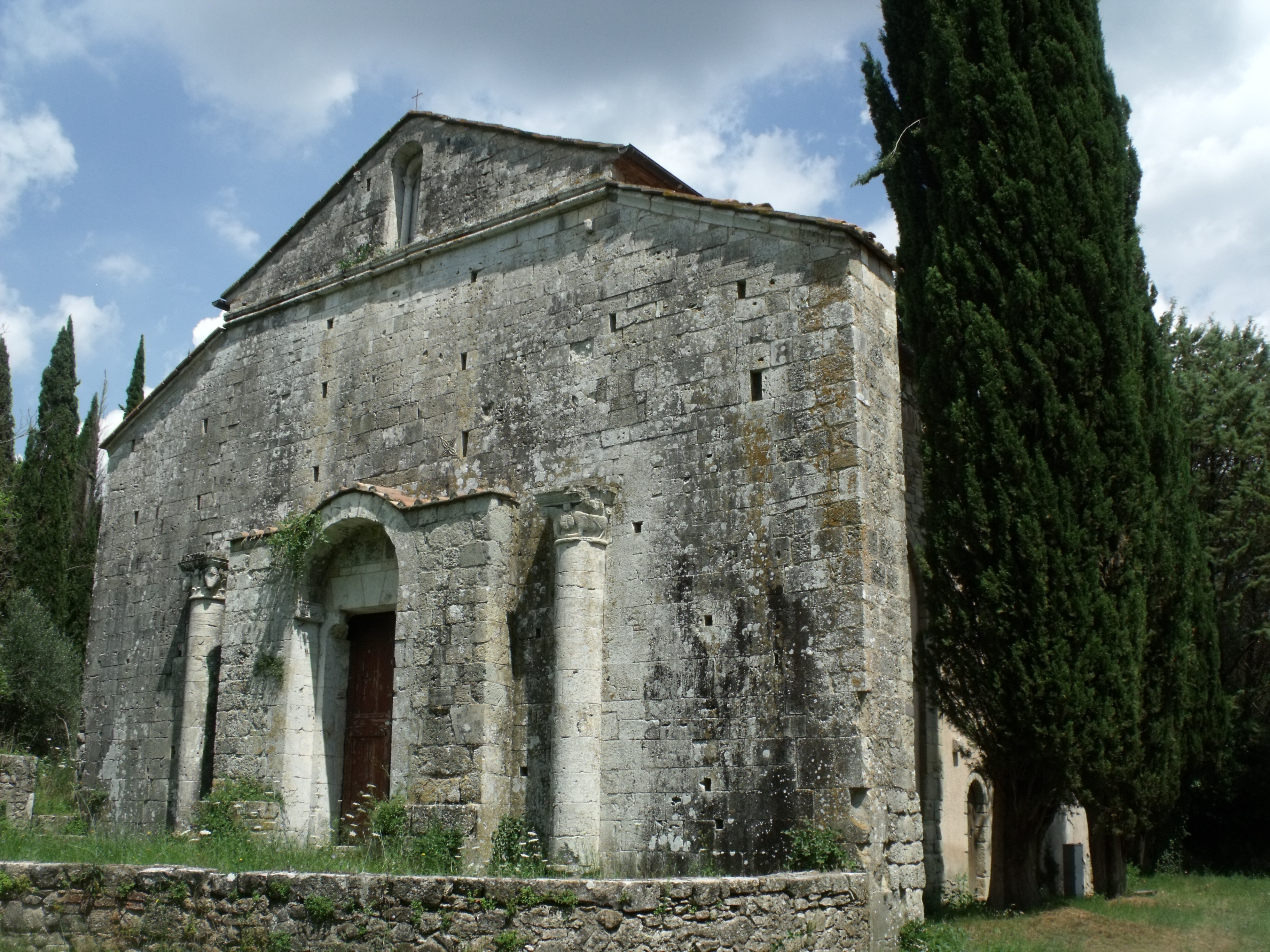 The Badia Ardenghesca (Abbazia di San Lorenzo al Lanzo) in Civitella Marittima, hamlet of Civitella Paganico, Maremma, Province of Grosseto, Tuscany, Italy